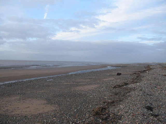 Beckfoot. A view looking northeast along the beach near Beckfoot. This is part of the Allerdale Ramble and also the Cumbria Coast Way.